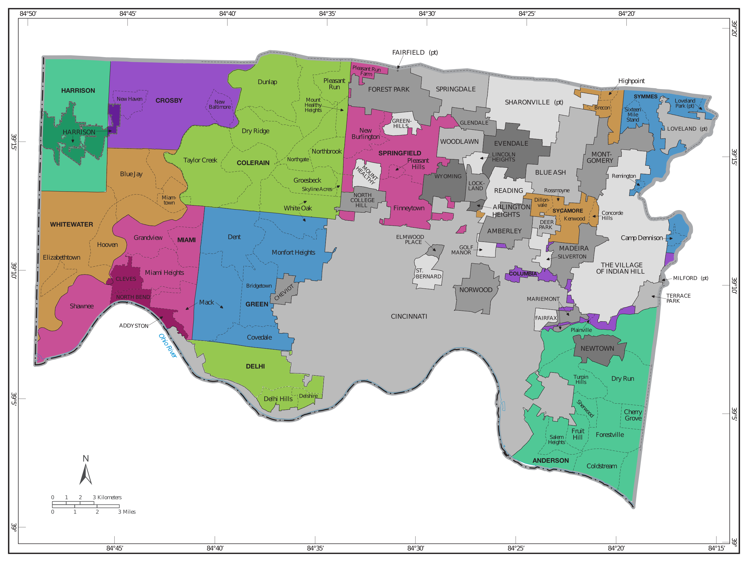 A map of municipalities and census-designated places (CDPs) in Hamilton County, Ohio, which contains the city of Cincinnati. Cities and villages are shown in varying shades of gray. Townships are shown in colors, with the name of the township in capitals; CDPs within each township are labeled in lowercase letters. Note that the White Oak and Mack CDPs each overlap two townships.